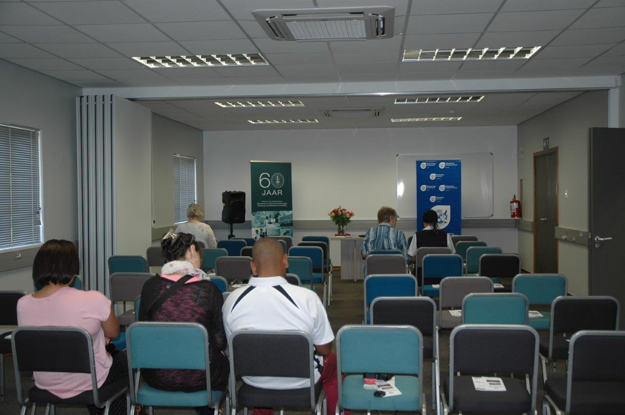 This is the conference rooms combined, after collapsing the separating wall for the handover.